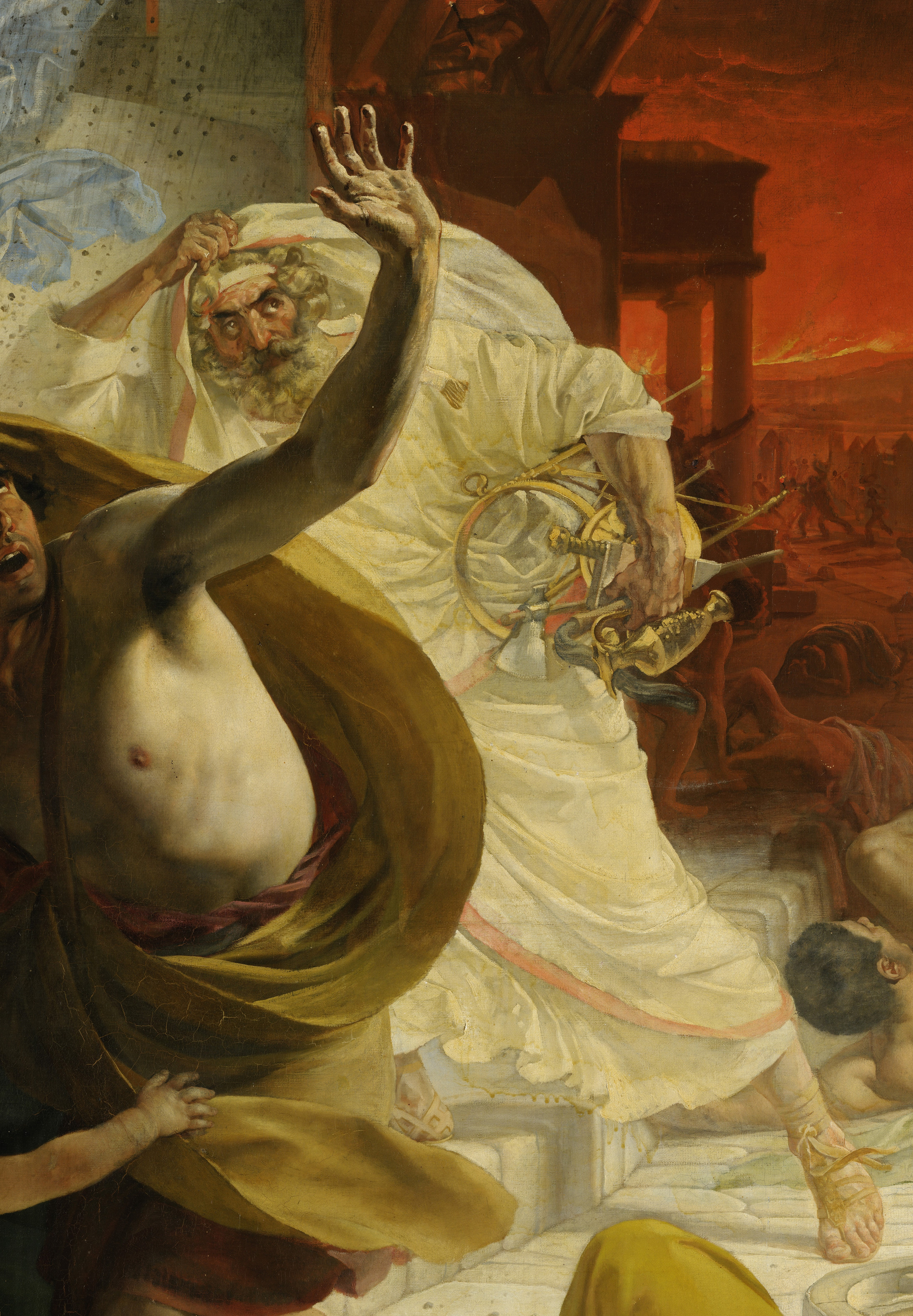 Detail of "The last day of Pompeii" (by Karl Bryullov, 1833, Russian Museum)